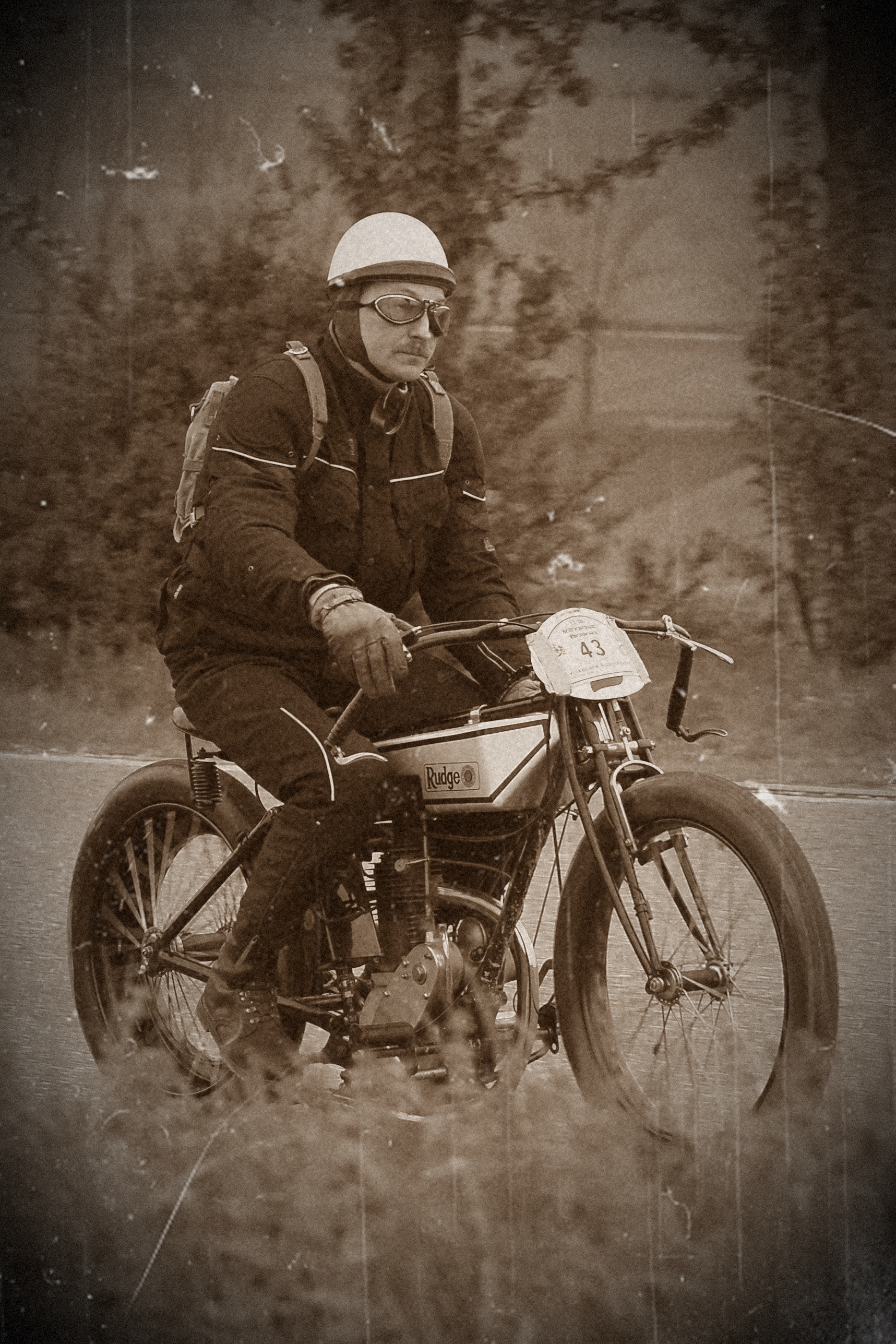 A Rudge Multi build 1914